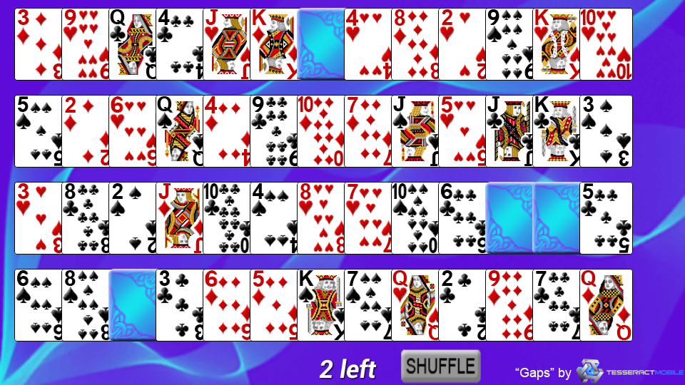 This image is a screenshot of the solitaire game "Gaps".